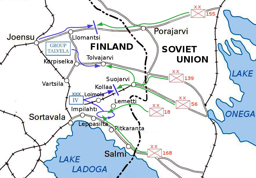 Winter War, North Ladoga - Karelia Ladoga Front